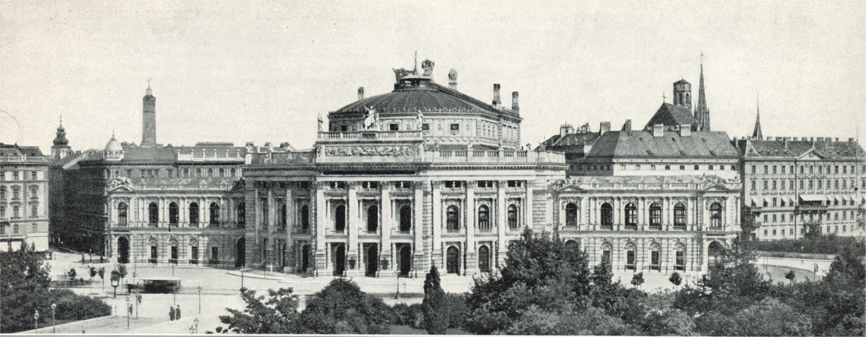 The Burgtheater in Vienna